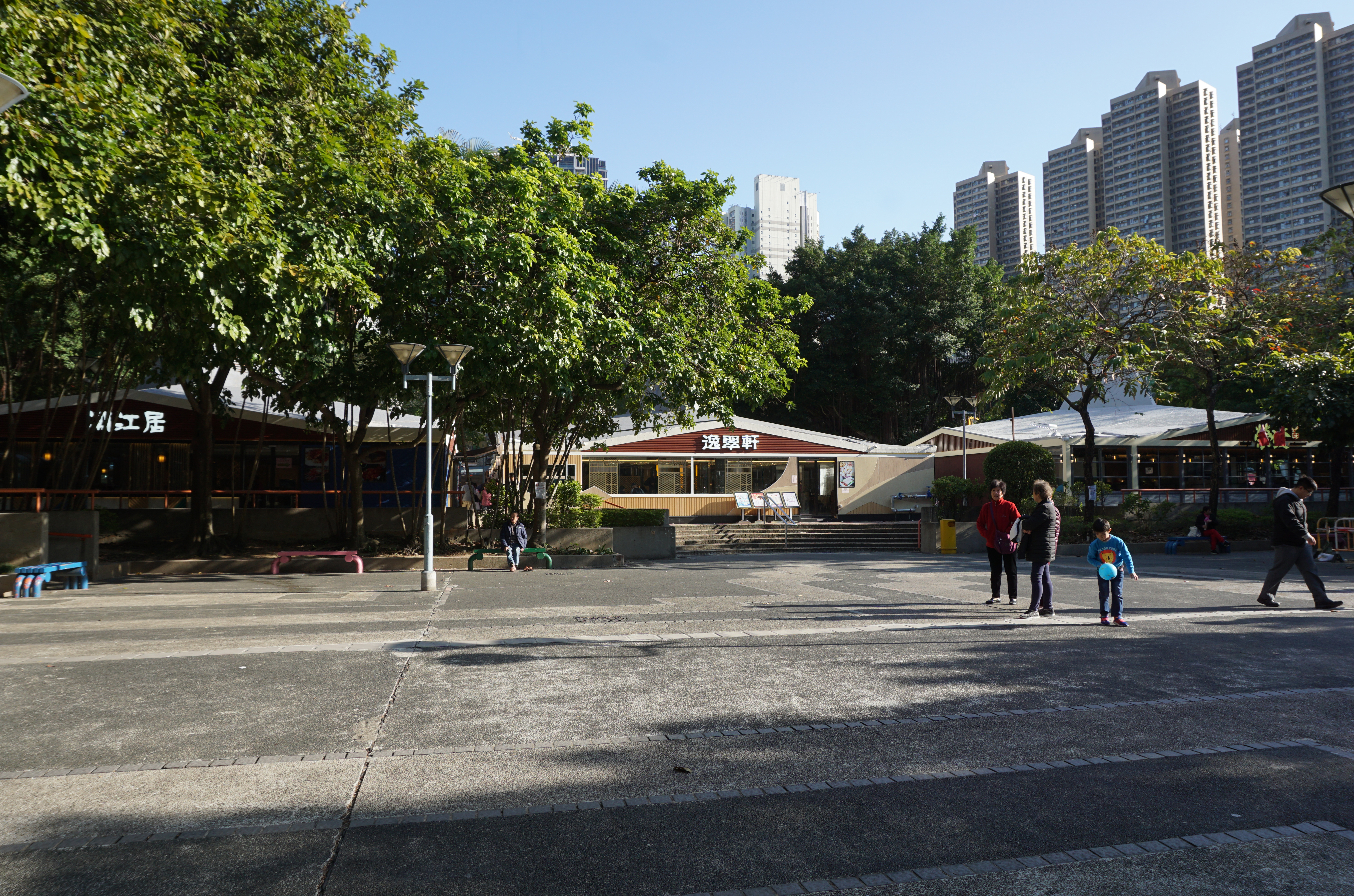 Hin Keng Estate in Tai Wai, Hong Kong.